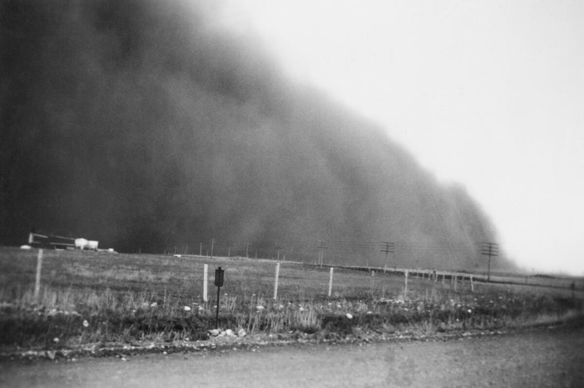 Dust storm at Harry Thomson's farm near Okotoks, Alberta, Canada.